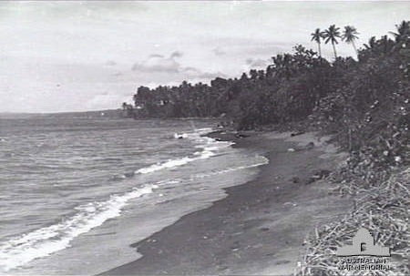 AWM description: RABAUL, NEW GUINEA. 1946-07-04. THE BEACH WHERE A SMALL JAPANESE TASK FORCE LANDED. 22ND BATTALION AND MEMBERS OF THE NEW GUINEA VOLUNTEER RIFLES WERE STATIONED HERE TO CLEAR RESISTANCE AND TO ENCIRCLE ROUND TO VANAKANAU AIRSTRIP AND LINK UP WITH THE MAIN FORCE.